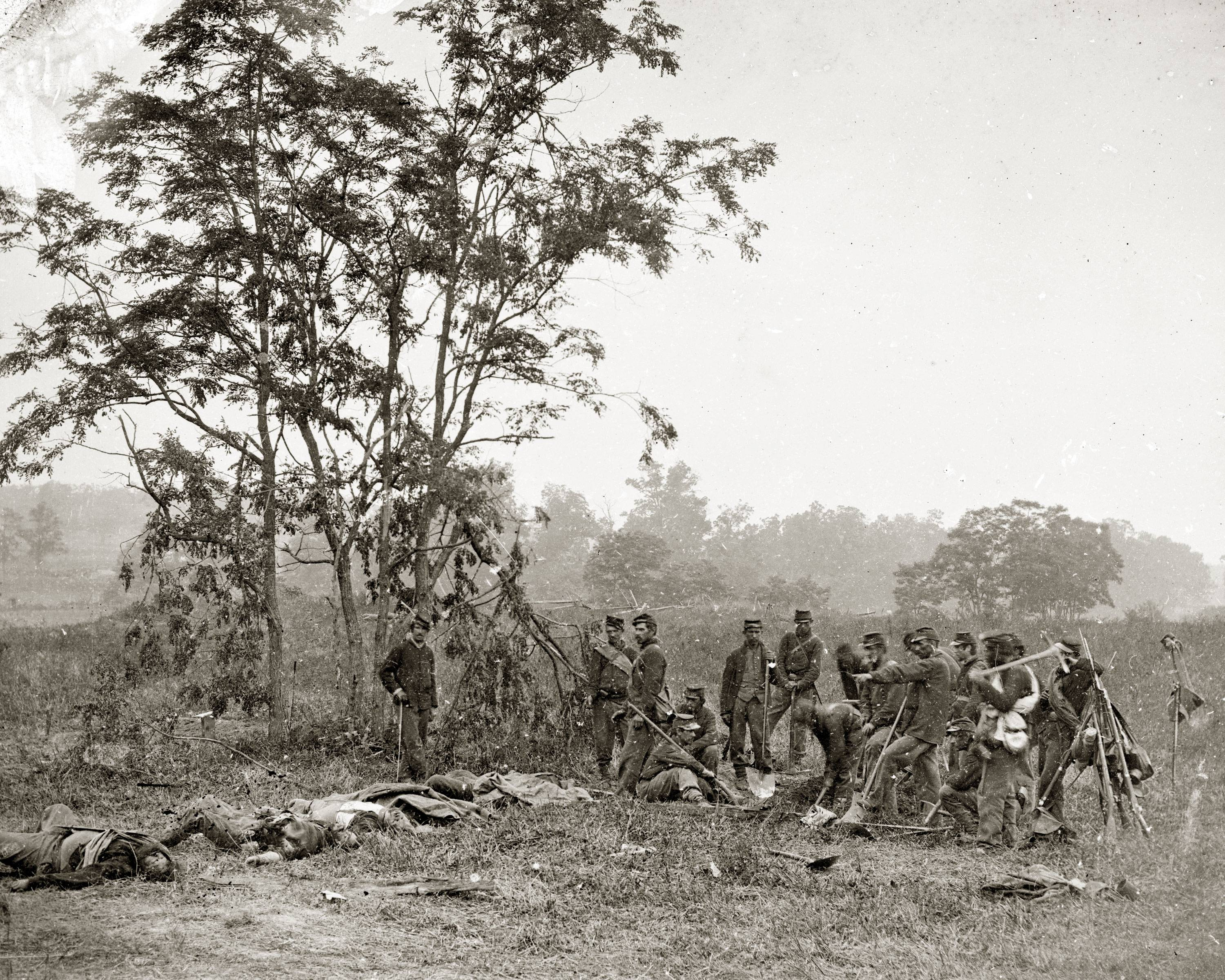 Burial crew of Union soldiers after the Battle of Antietam, September 1862